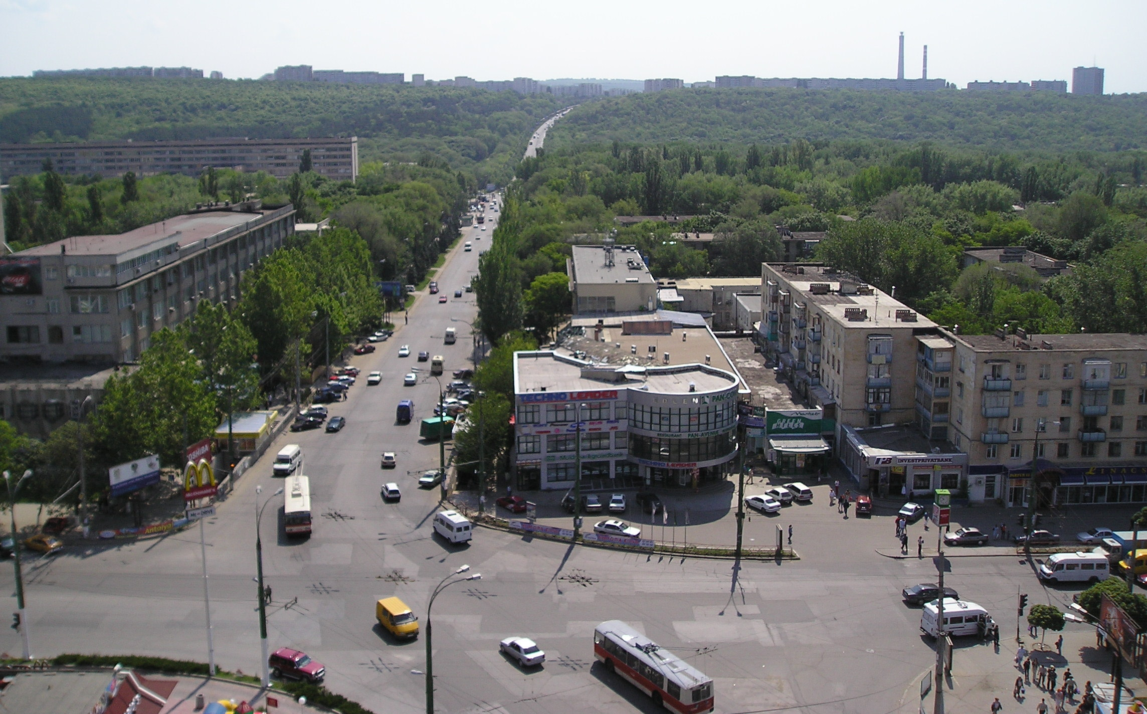 The panorama of Rîşcani district of Chişinău. The long street is Alecu Russo street. The crossing is known as the Alecu Russo Square. In the second plan there is some blocks of flats of Ciocana district.